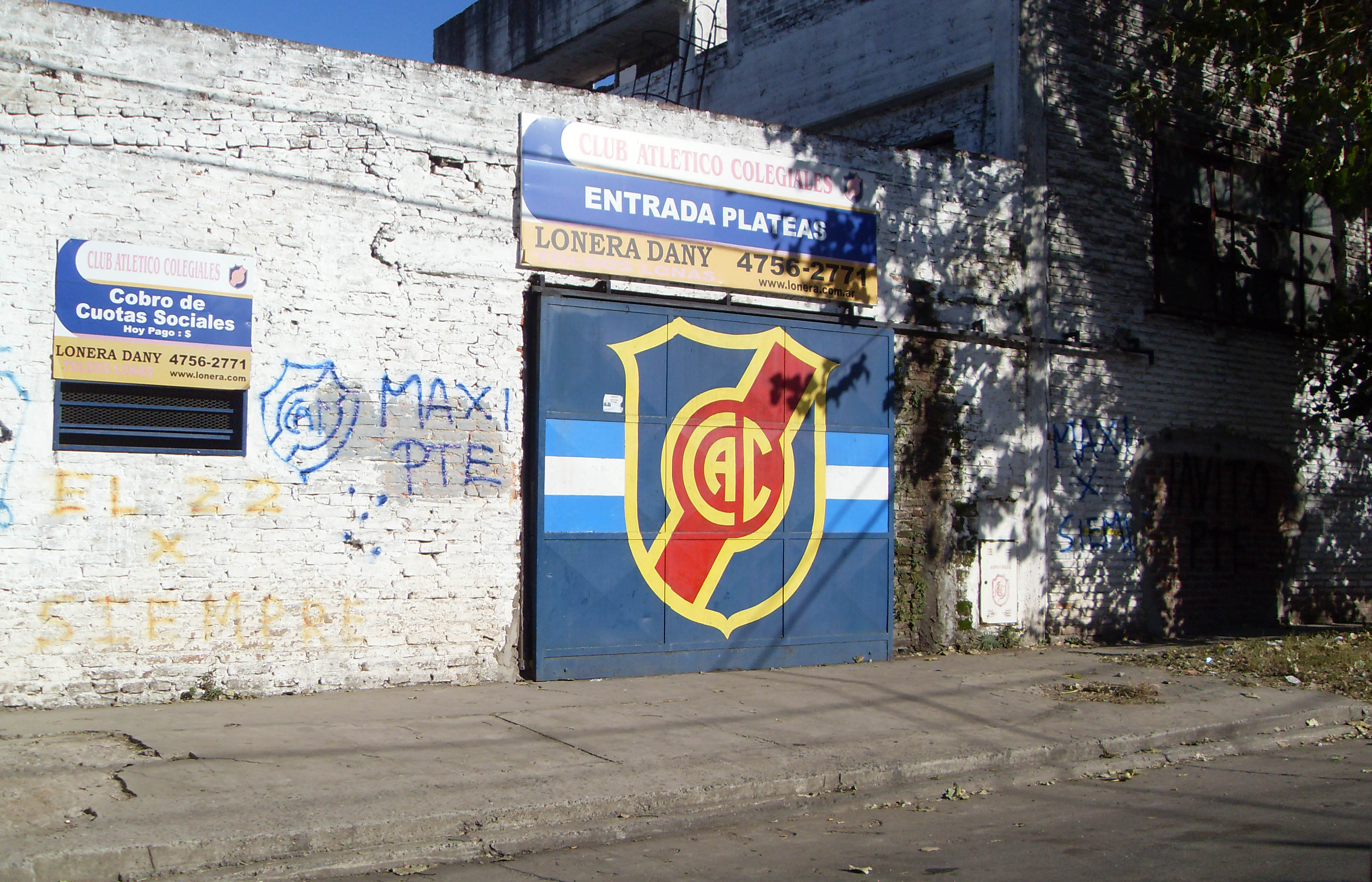 Club A. Colegiales' stadium entrance, on G. Posadas street in Florida, near "Plaza La Paz".